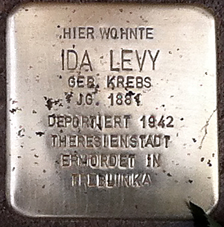 Stolperstein - Stumbling Stone in Nettetal, NRW, Germany Ida Levy